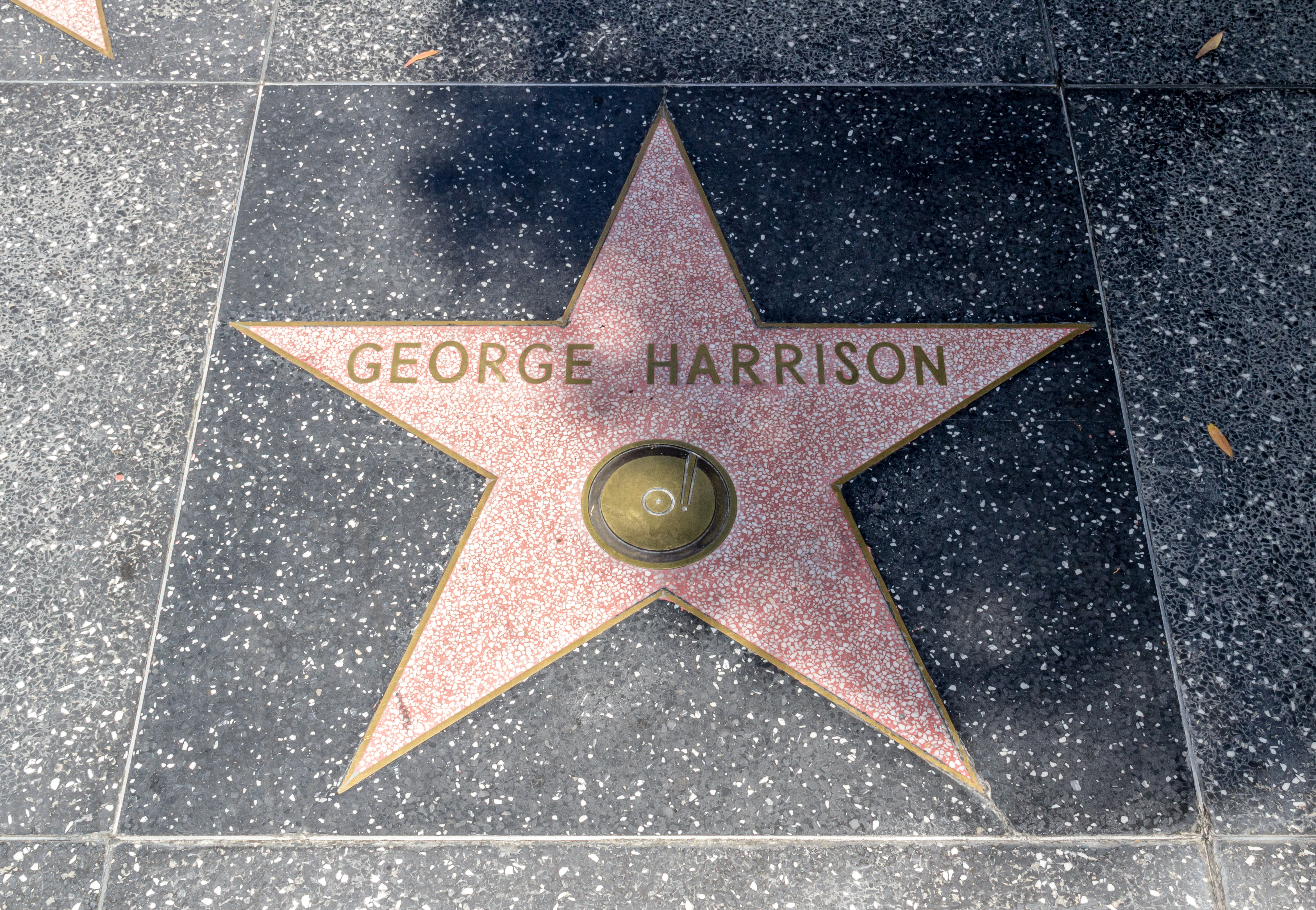 Star “George Harrison” at the Hollywood Boulevard in Los Angeles, California, USA